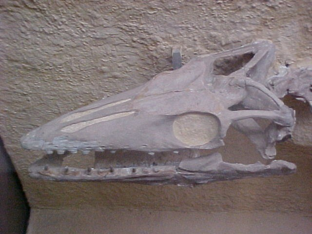 I took this photograph at the Peabody Museum, Yaleo University, in June 0f 2000.